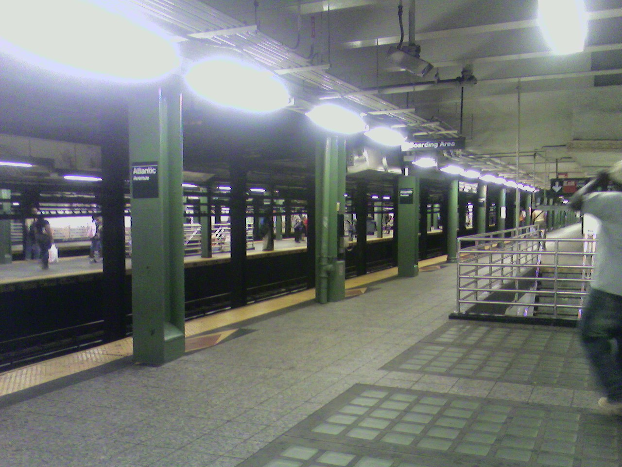 The Atlantic Avenue station. Category:Images of Brooklyn